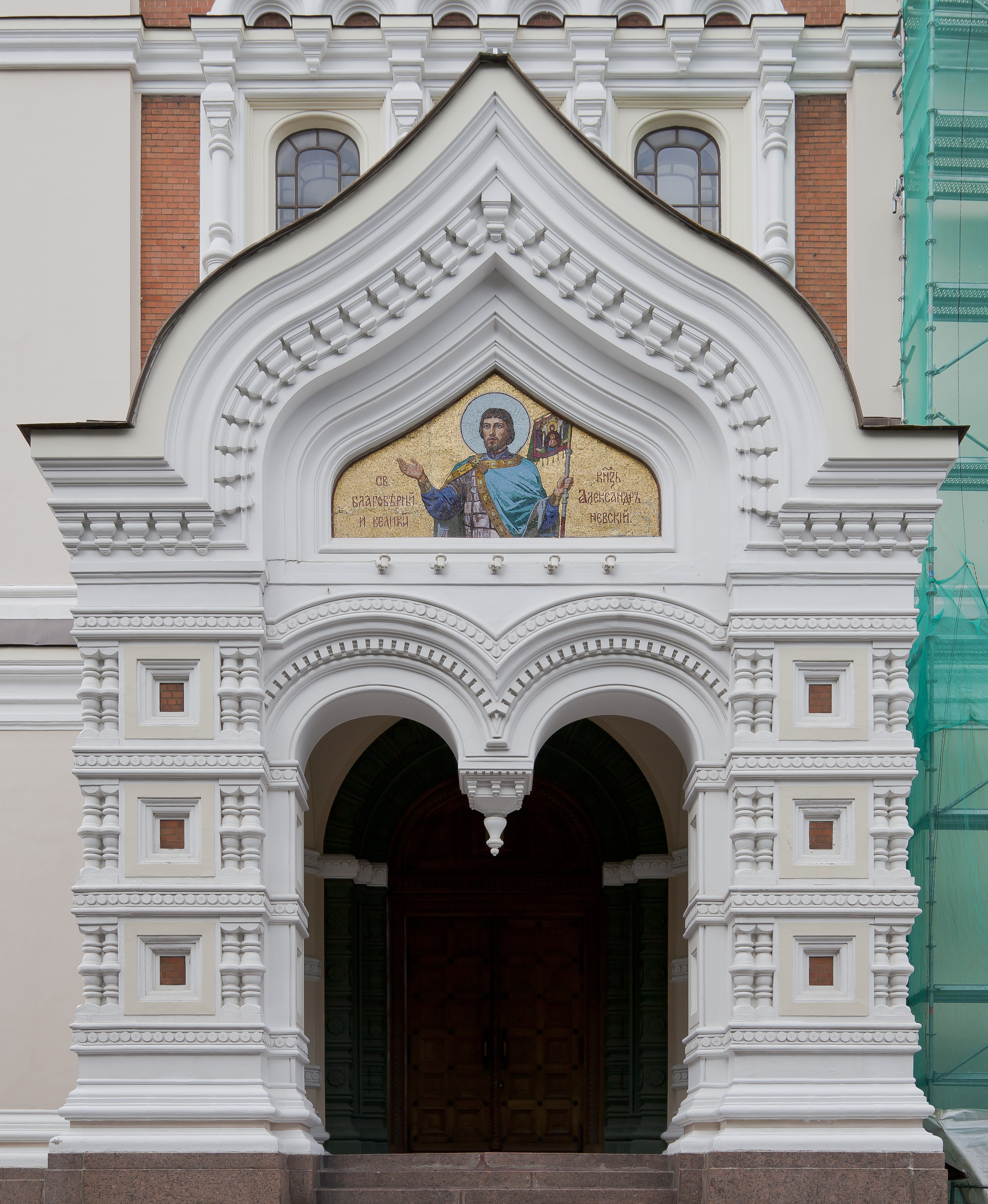 Alexander Nevsky Cathedral, Tallinn, Estonia